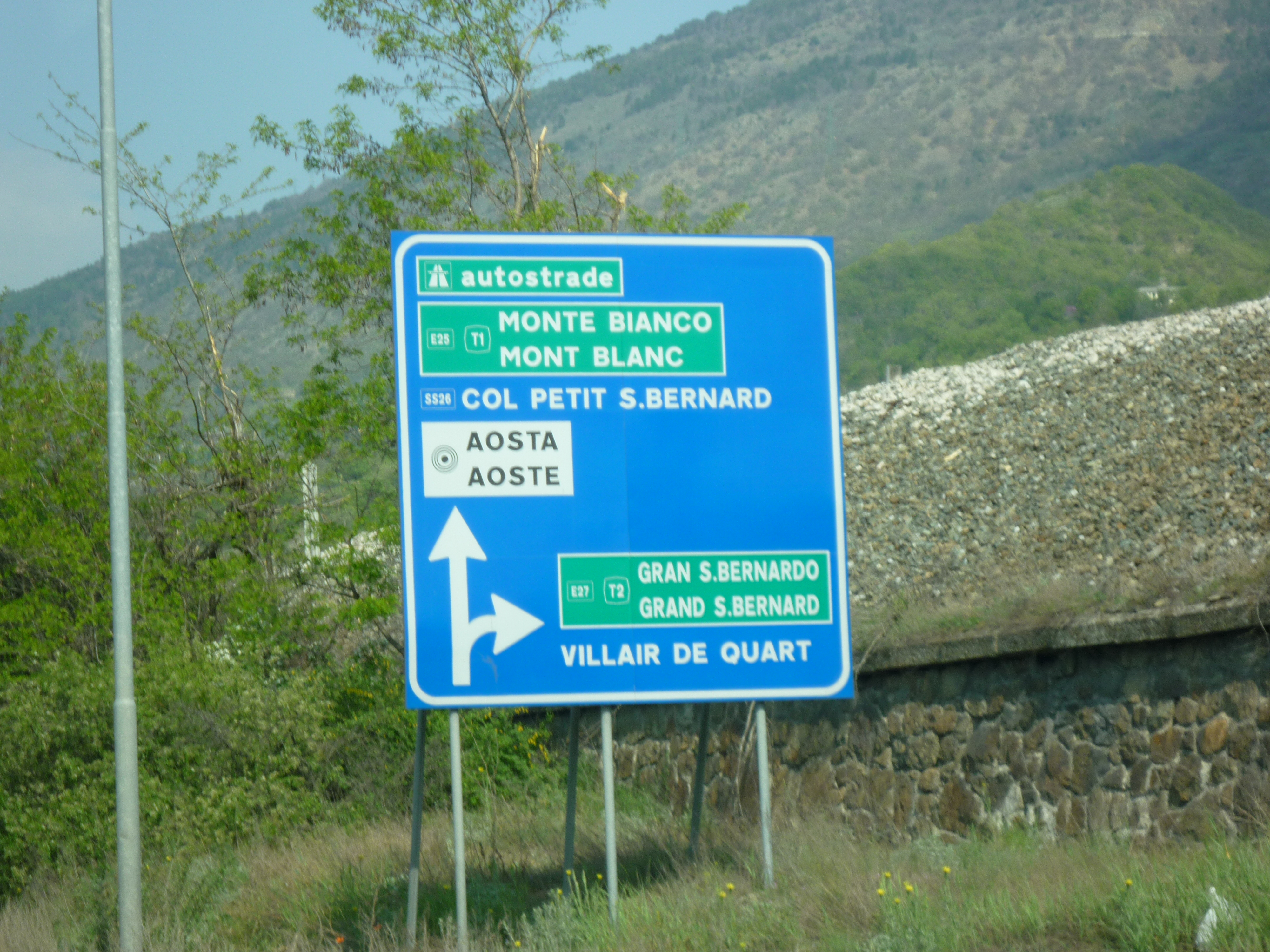 Bilingual road signs in Teppe (Aosta Valley - Italy)